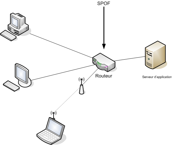 Example of a Single Point of Failure